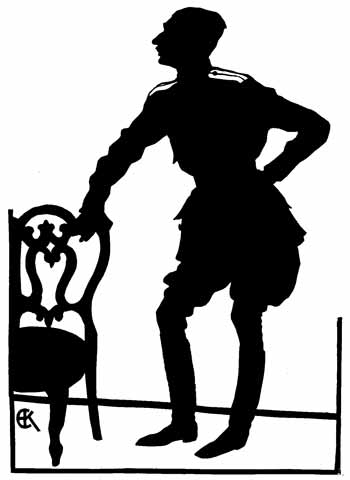 Yelizaveta Kruglikova. George Yakulov. 1915—1917. National Gallery of Armenia.